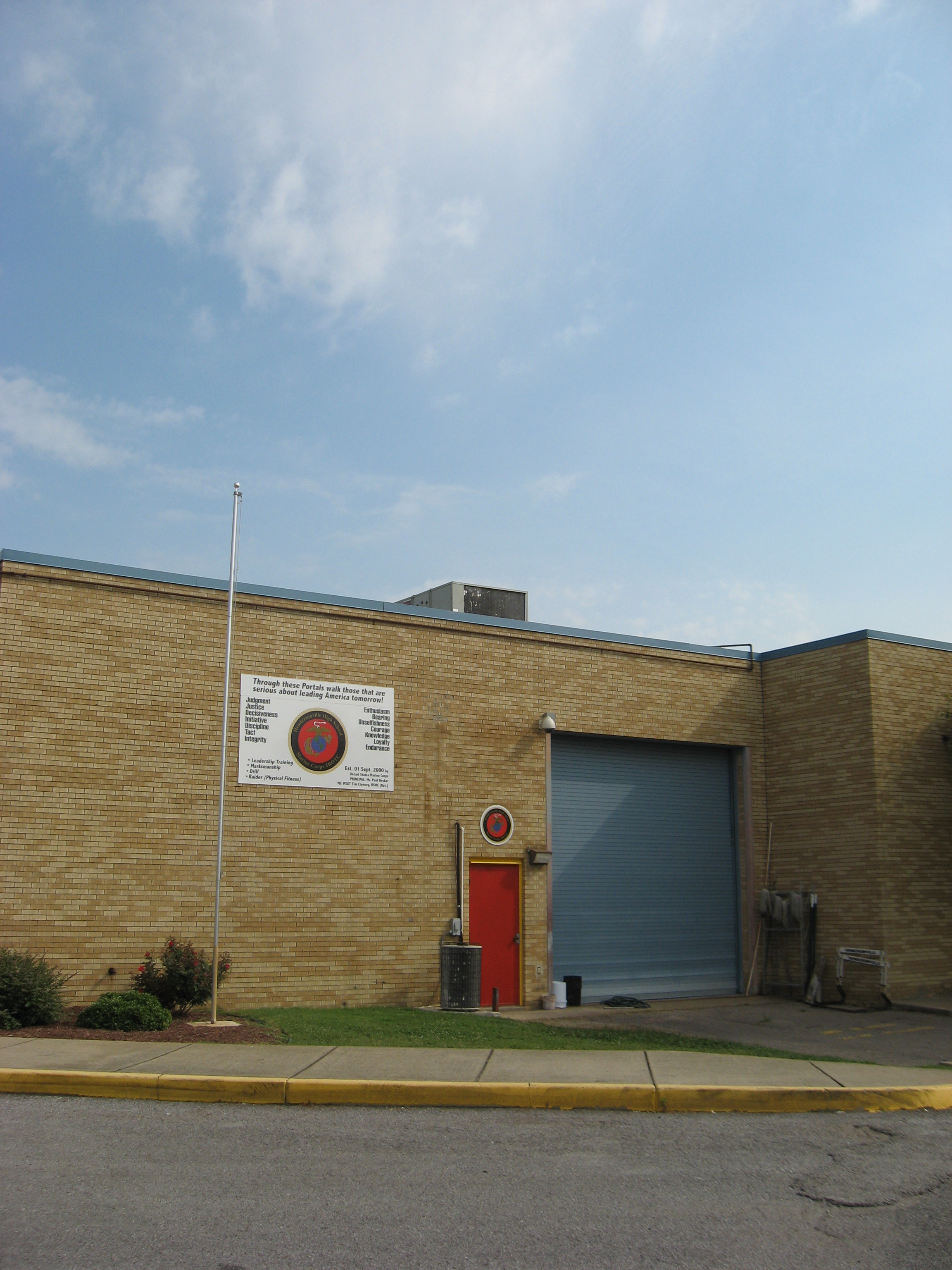 Marine Corps Junior ROTC unit of Hendersonville High School (Hendersonville, Tennessee, USA)